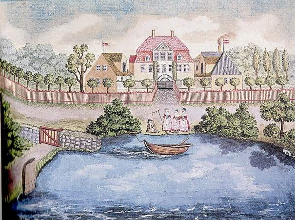 Water colour of Folehaven's pond in Hørsholm, Denmark by Jean-Francois de Jonquières